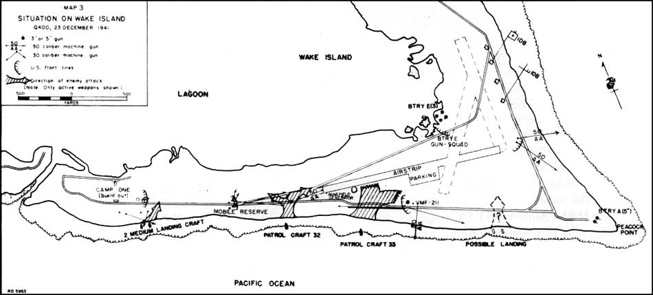 Map of the situation on Wake Island, 0400 hrs, 23 December 1941.